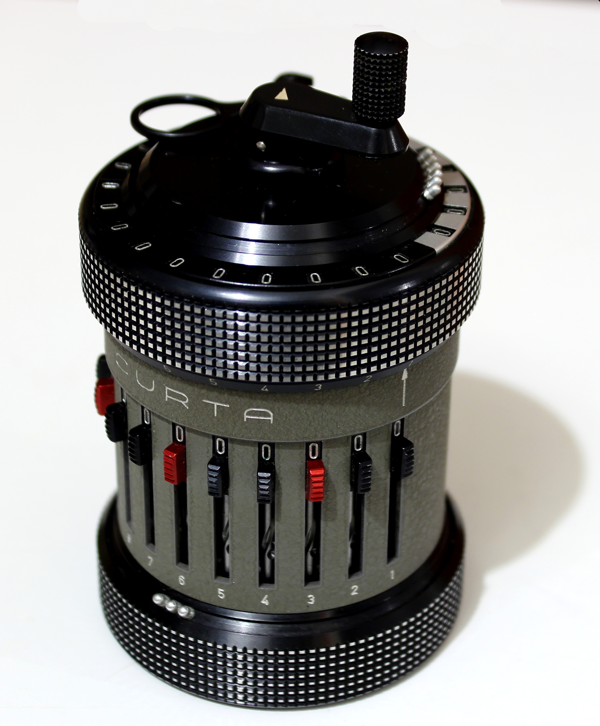 Mechanický kalkulátor Curta typ 2.